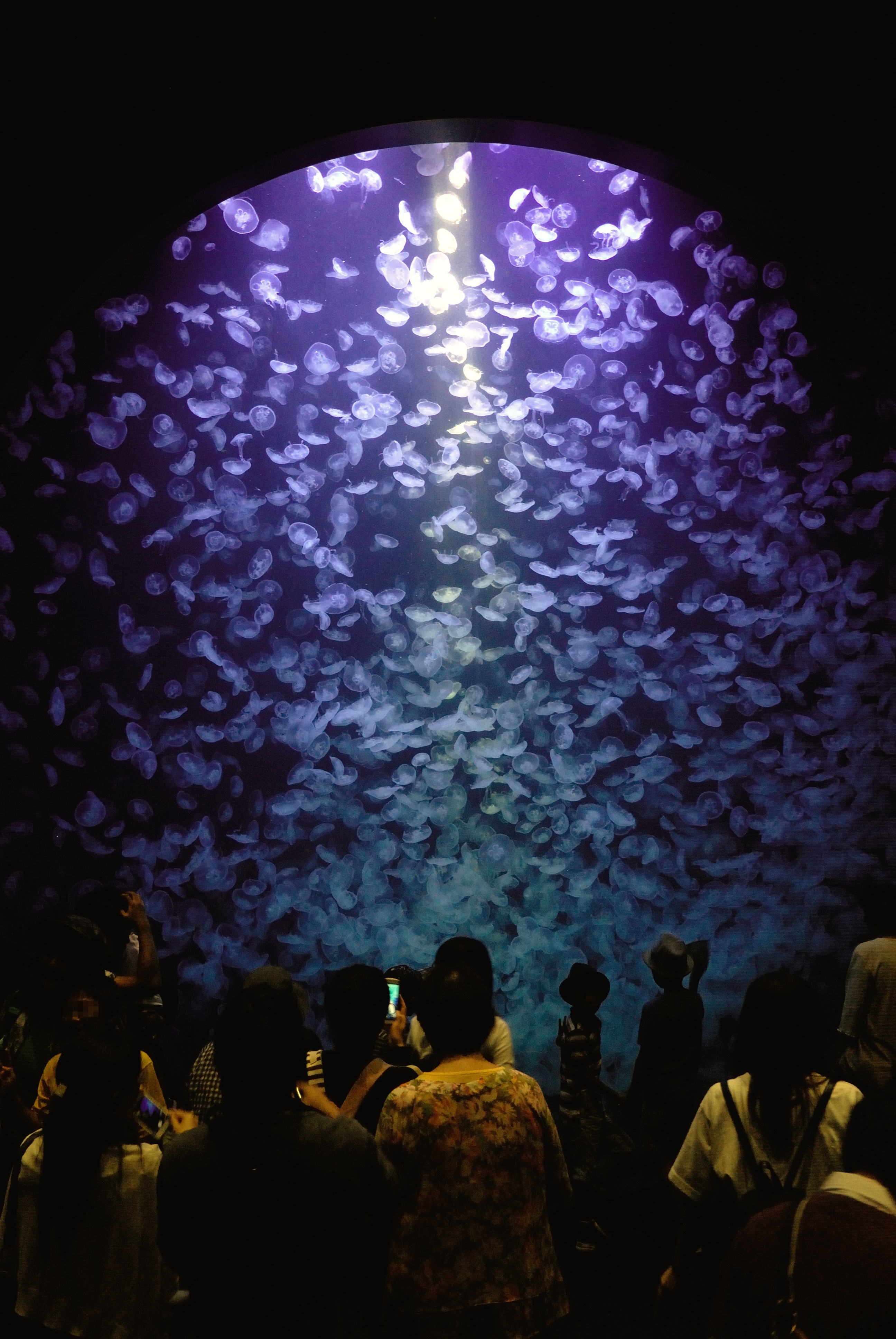 Jellyfish Dream Theater